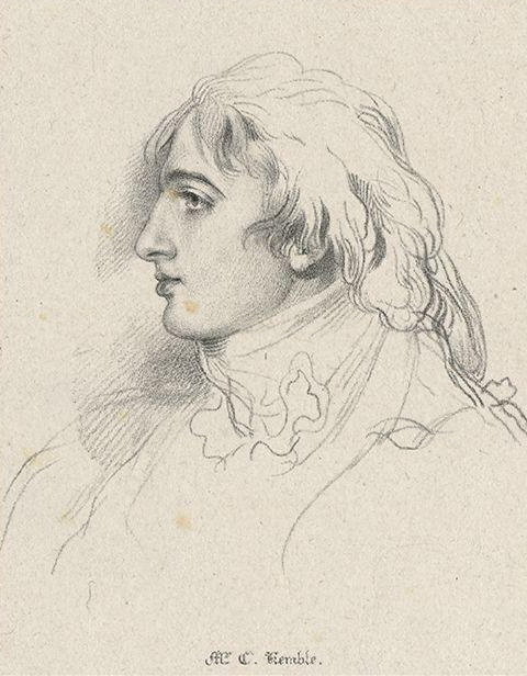 Extracted from Cecilia Combe (née Siddons); Sarah Siddons (née Kemble); Charles Kemble; Maria Siddons, by J. Dickinson (floruit 1836), given to the National Portrait Gallery, London in 1956.